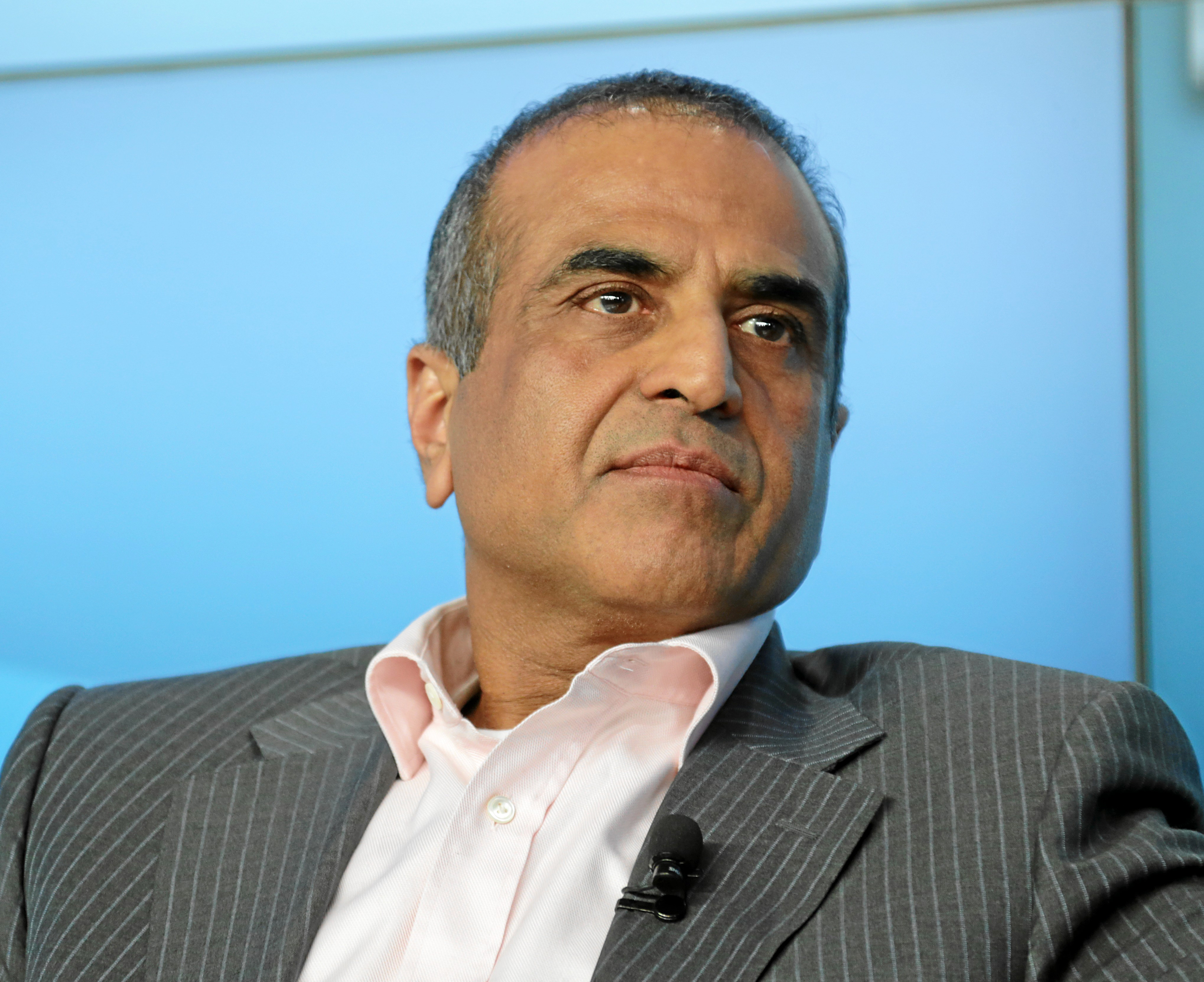 DAVOS/SWITZERLAND, 23JAN13 - Sunil Bharti Mittal, Chairman and Group Chief Executive Officer, Bharti Enterprises, India is seen during the televised session 'De-risking Africa - Achieving Inclusive Prosperity' at the Annual Meeting 2013 of the World Economic Forum in Davos, Switzerland, January 23, 2013.. . Copyright by World Economic Forum. . Remy Steinegger